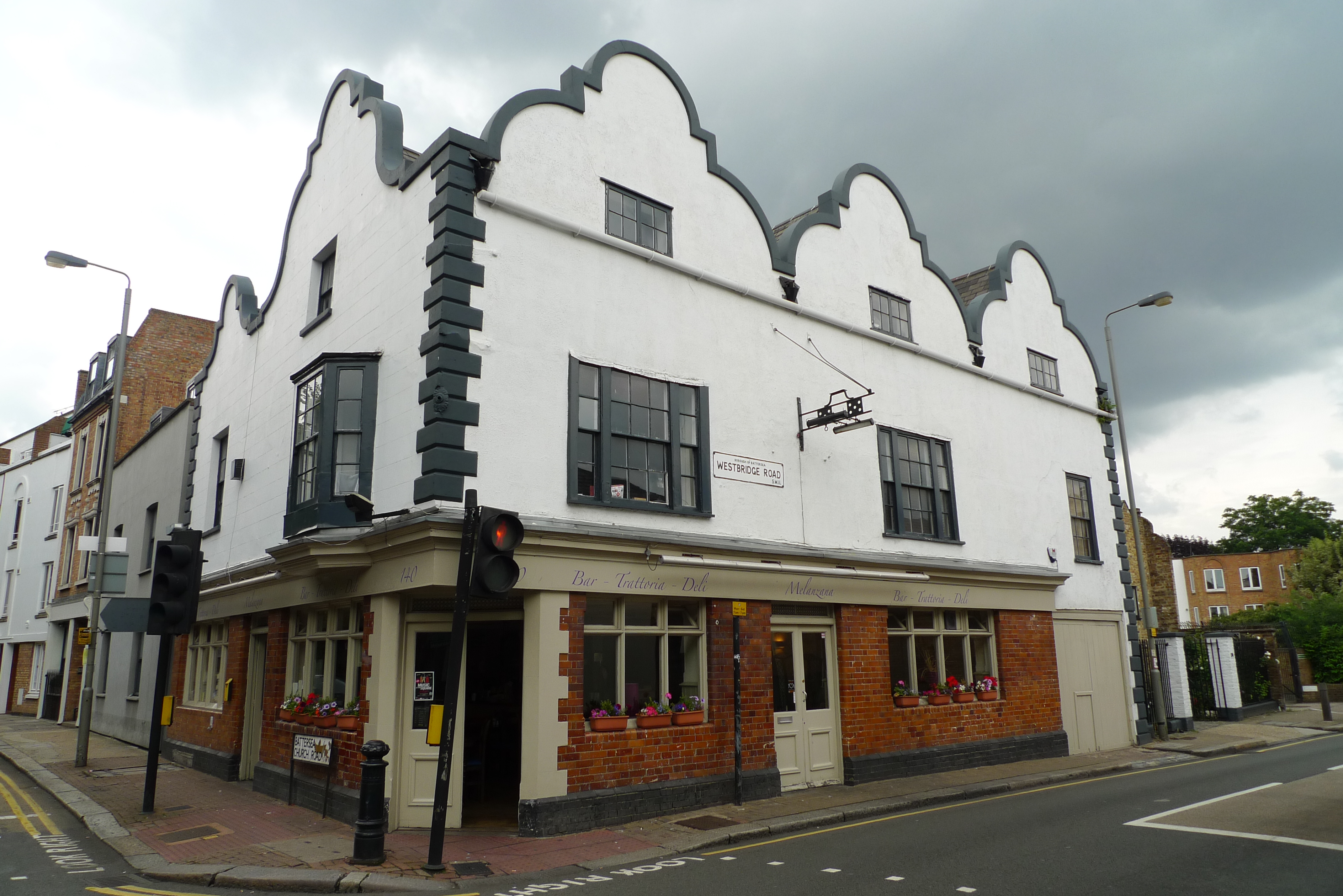 A former pub building, now an Italian restaurant. (It was in the Good Beer Guide as The Raven.) Address: 140 Westbridge Road (formerly Bridge Road West). Former Name(s): Raven OneForty; The Raven (Inn). Owner: (website); Courage (former). Links: London Eating Fancyapint (Raven OneForty) Pubs Galore (The Raven) Beer in the Evening (Raven OneForty) Pubs History (history)